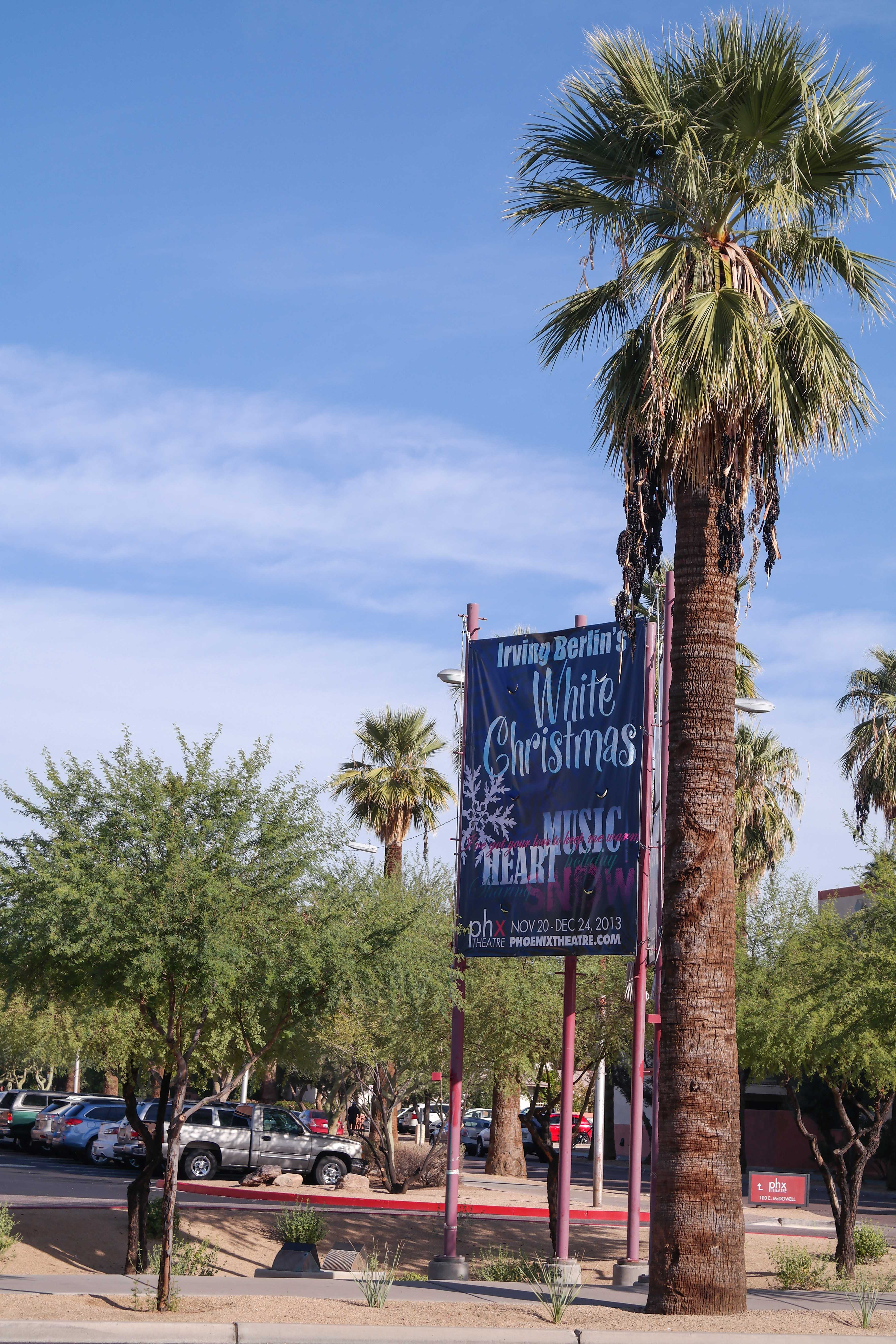 An advertisement for Irving Berlin's White Christmas in Phoenix, Arizona